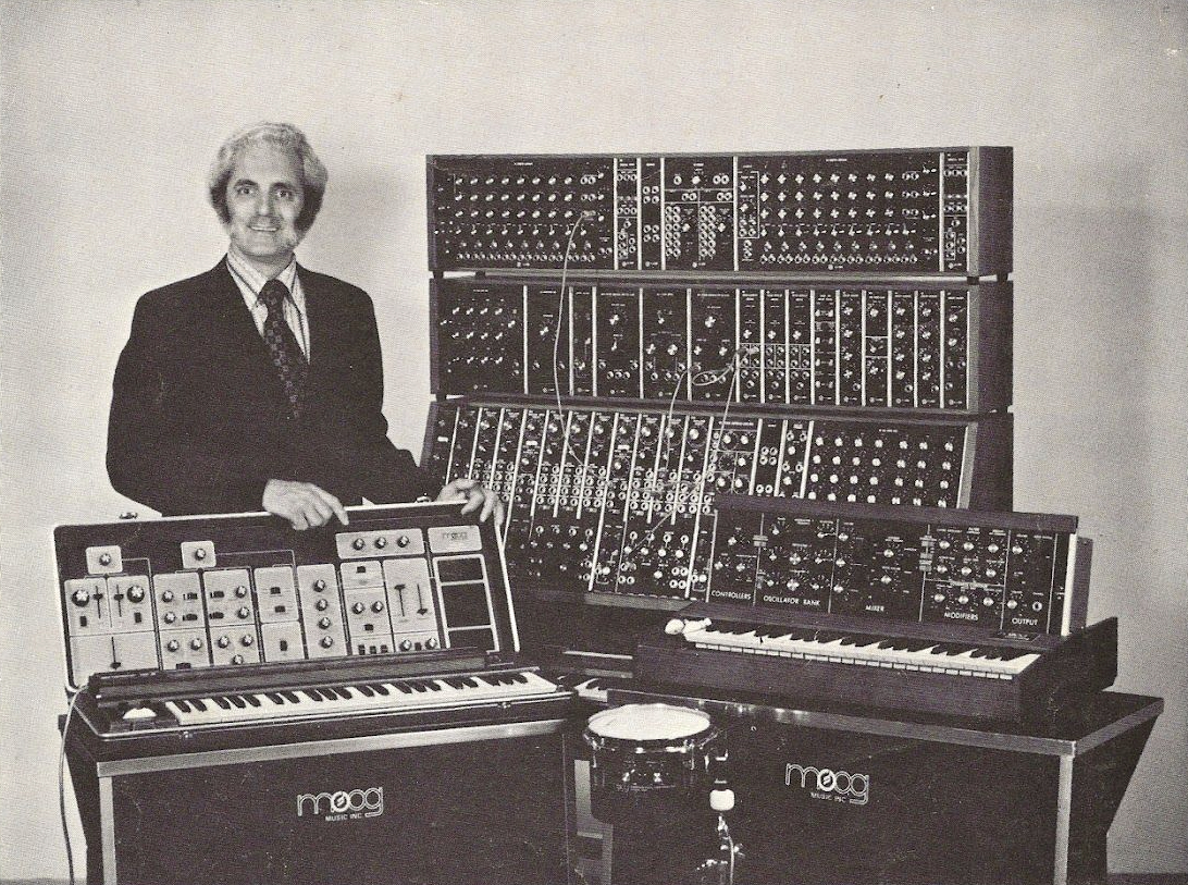 photo left to right Robert Moog Moog Sonic Six Moog modular 55 Moog 1130 Percussion Controller [1] Minimoog